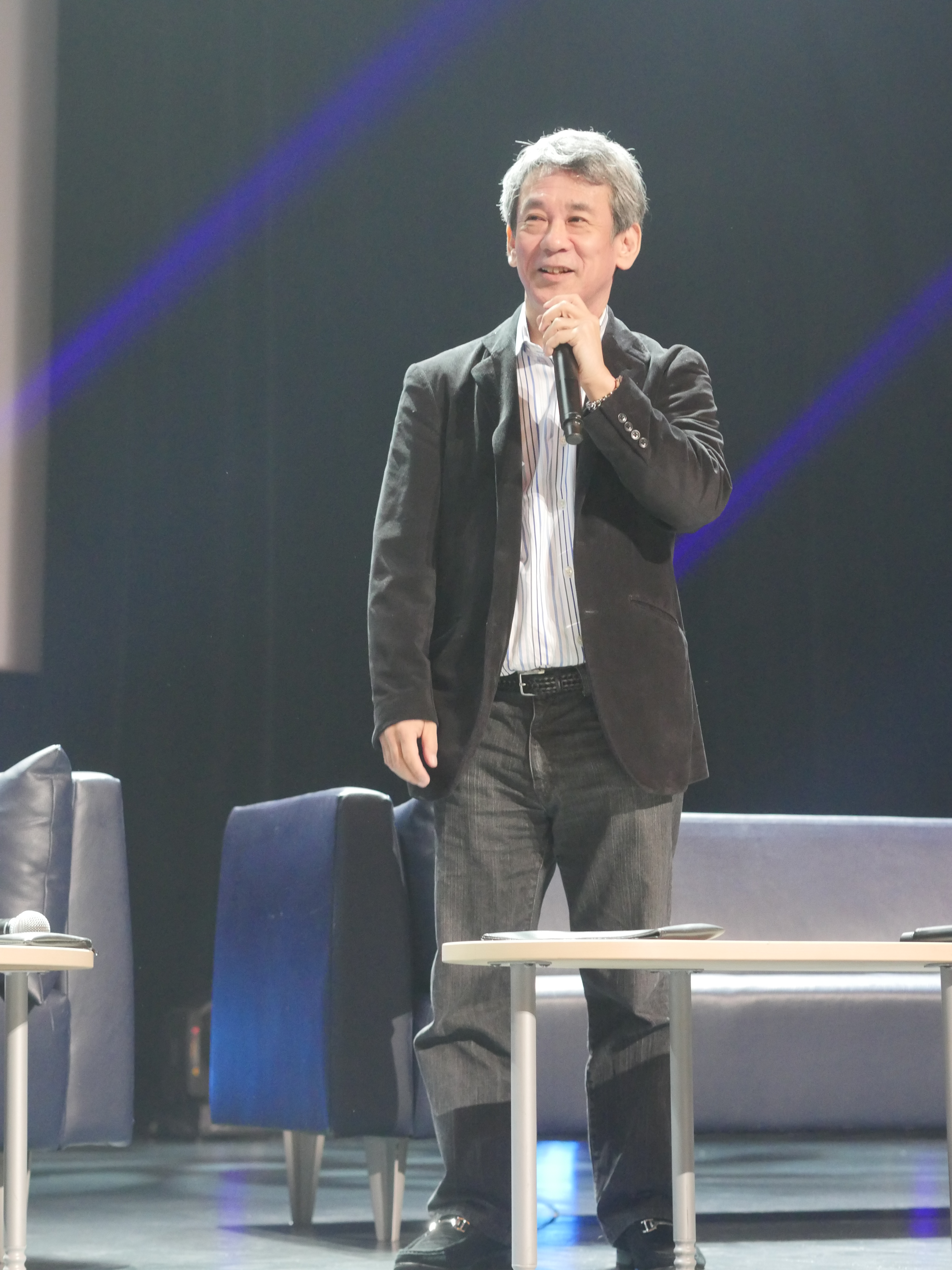 photograph taken at the 2015 edition of the "Monaco Anime Game International Conferences" (MAGIC) organized by Shibuya International in Monaco.